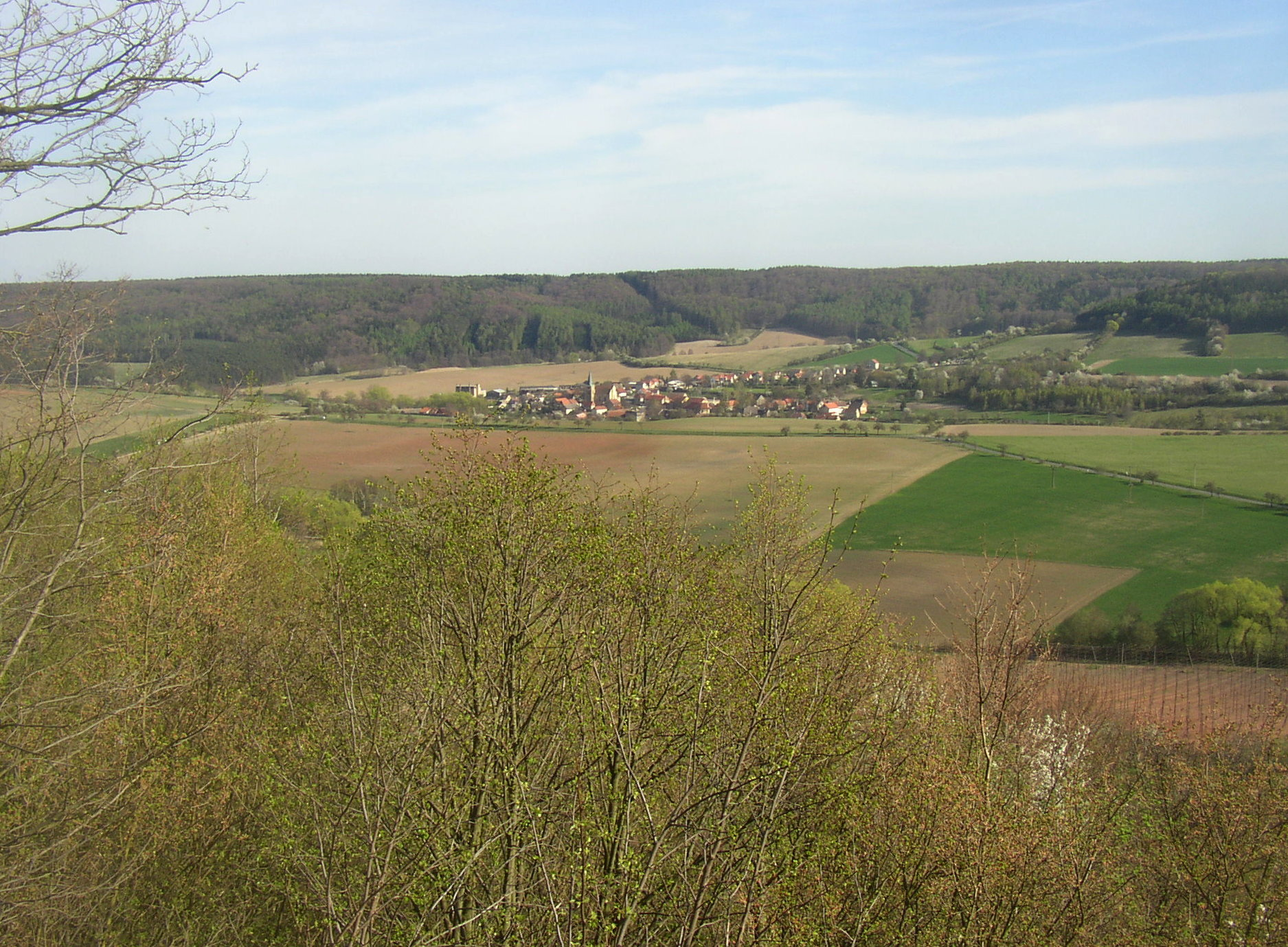 Village of Srbeč, Rakovník District, Czech Republic, as seen from the northewest, from lookout point above nature reserve of Milská stráň. A road connecting Milý and Srbeč runs from the right edge across the field, Market town of Mšec is located out of sight behind the forested right horizon.